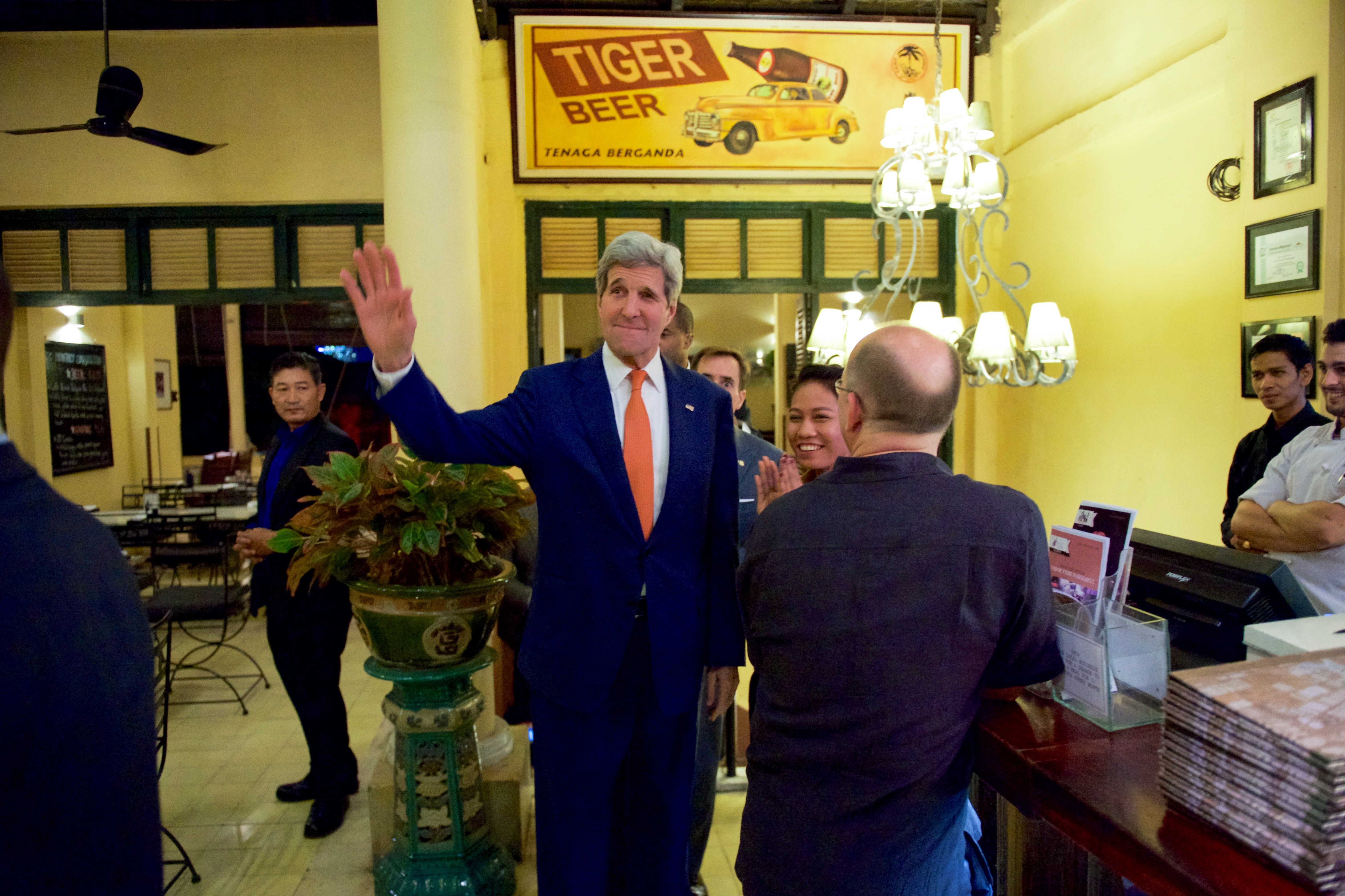 Flickr description U.S. Secretary of State John Kerry waves to tourists after he entered the famed Foreign Correspondents Club in Phnom Penh, Cambodia, on January 25, 2016, for a conversation in advance of meetings with the Prime Minister, Foreign Minister, and others. [State Department Photo/Public Domain]